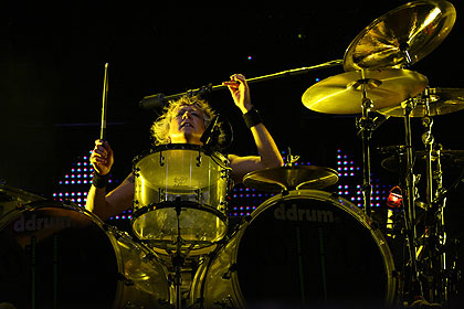 JamesKottak